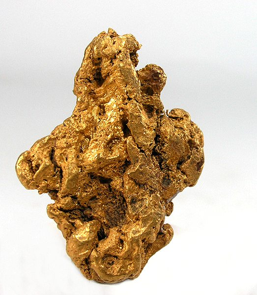 Gold Locality: Williams Creek (Wyoming Hydraulic Mine; Stouts Gulch; Emery Gulch), Barkerville area, Cariboo Mining Division, British Columbia, Canada (Locality at ) Size: miniature, 4 x 3.1 x 0.8 cm Gold This flattened nugget, which still has a little quartz adhering to the back side, was originally purchased at Barkerville, British Columbia in the middle 1960s by the previous owner. It has a roughly cruciform (cross like) appearance. The nugget is actually from Emery Gulch, British Columbia, two miles from Barkerville, and would be considered quite a large Canadian nugger for the locality. It weighs 35 grams or just over an ounce so the price of 2x spot for a rare locality nugget is pretty good, i think. 4 x 3.1 x 0.8 cm